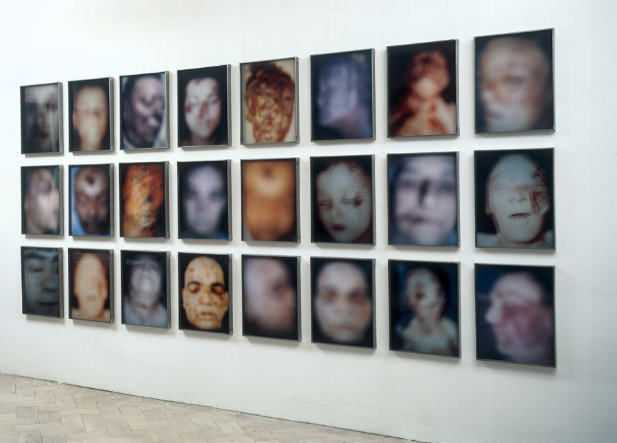 "Poems" 1997 photographs, plexiglass, iron. Fritz Gruber collection. Ludwig Museum, Cologne.